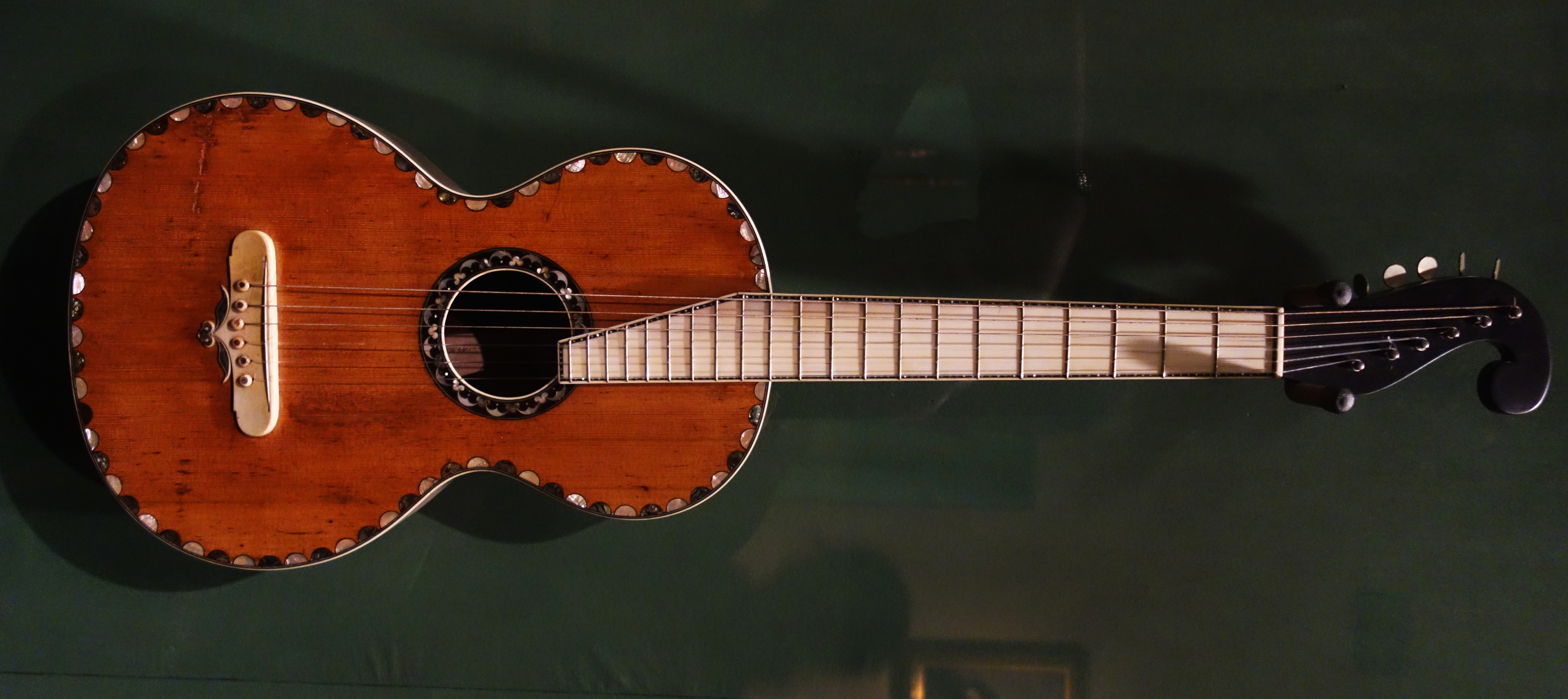 A guitar made by C.F. Martin in New York in about 1838. Martin was born in Saxony and learnt his trade in Vienna before emigrating to the United States, where he went on to found the eponymous American company. "Early American Guitars: The Instruments of C. F. Martin" Exhibition Metropolitan Museum, New York. References "C.F. Martin ca. 1837" in Robert Shaw, Peter Szego , ed. Inventing The American Guitar - The Pre-Civil War Innovations of C.F. Martin and His Contemporaries, Hal Leonard Books, October 2013, 310pp ISBN: 9781458405760. UPC: 884088578350